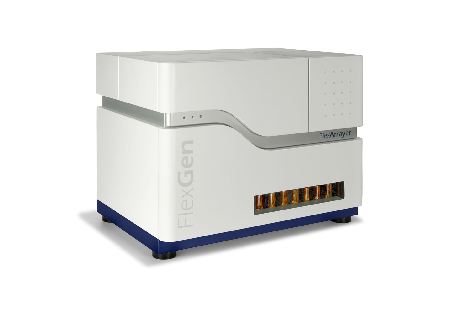 FlexArrayer